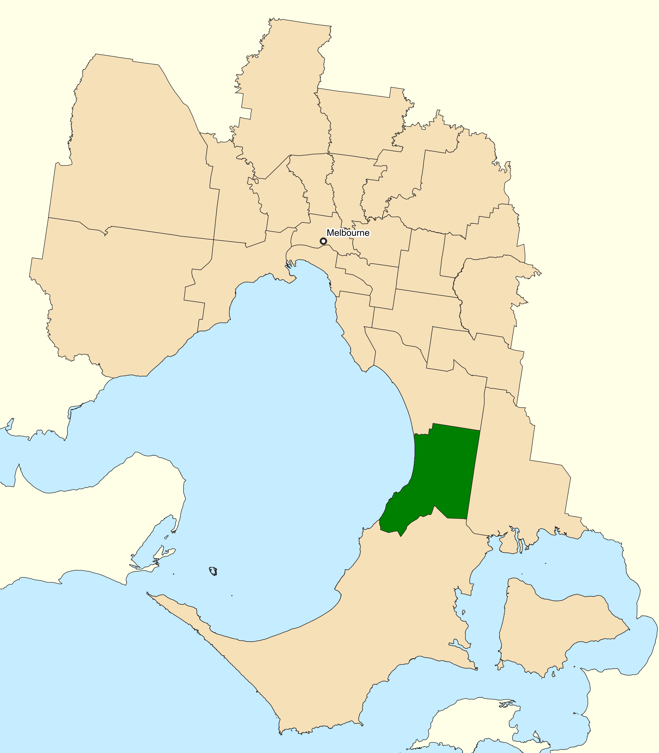 Location of the Australian federal electoral division of Dunkley (dark green) in Greater Melbourne, Victoria as of the 2019 Australian federal election. Incorporates or developed using Administrative Boundaries ©PSMA Australia Limited licensed by the Commonwealth of Australia under Creative Commons Attribution 4.0 International licence (CC BY 4.0).